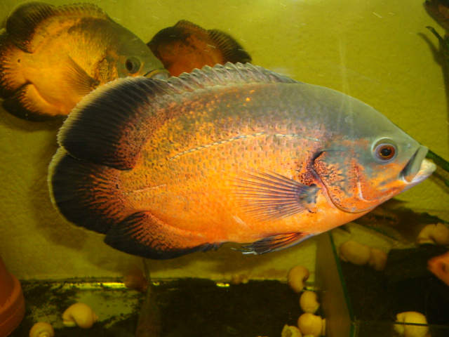 Red Oscar